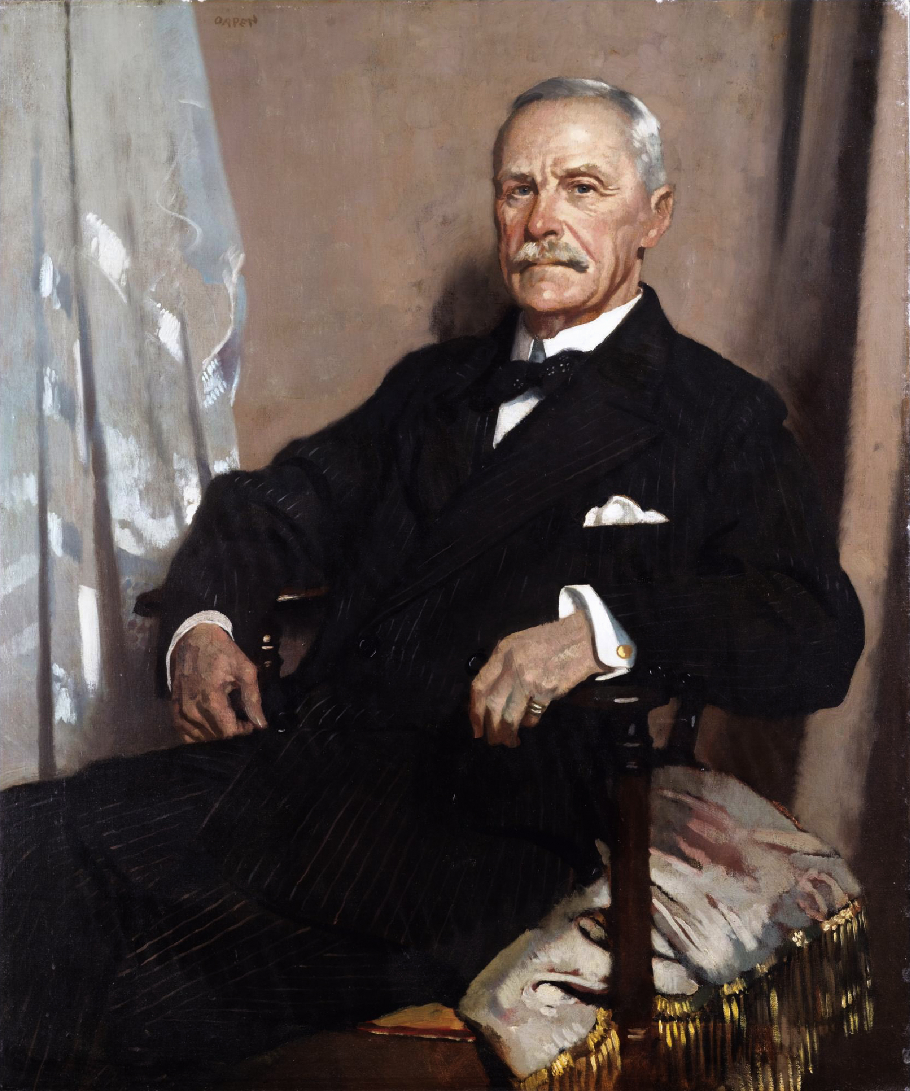 Charles Lawrence, 1st Baron Lawrence of Kingsgate oil on canvas 106.6 x 91.5 cm signed u.l.: ORPEN